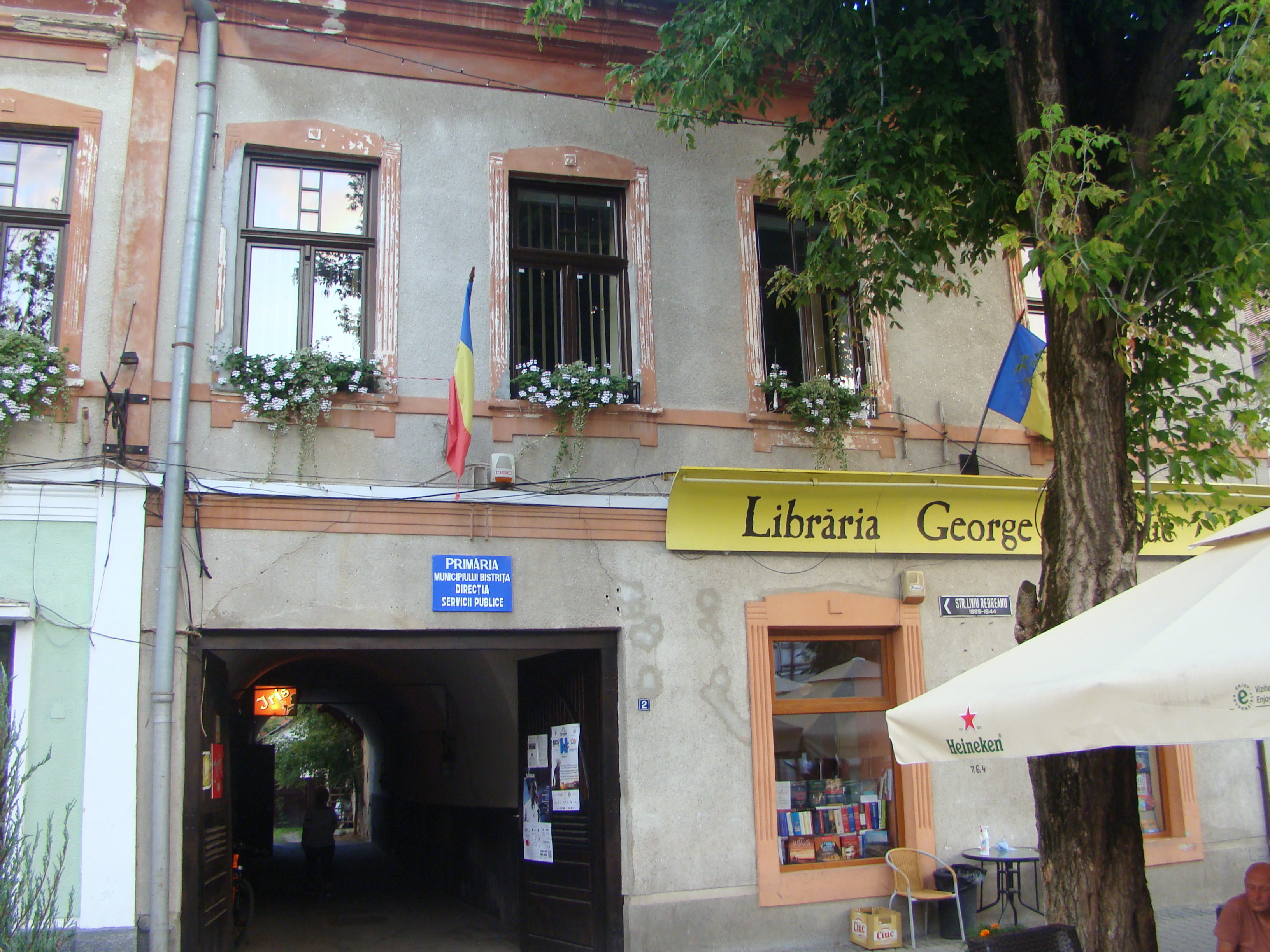 House, historic monument, in Bistrița, Liviu Rebreanu street 2